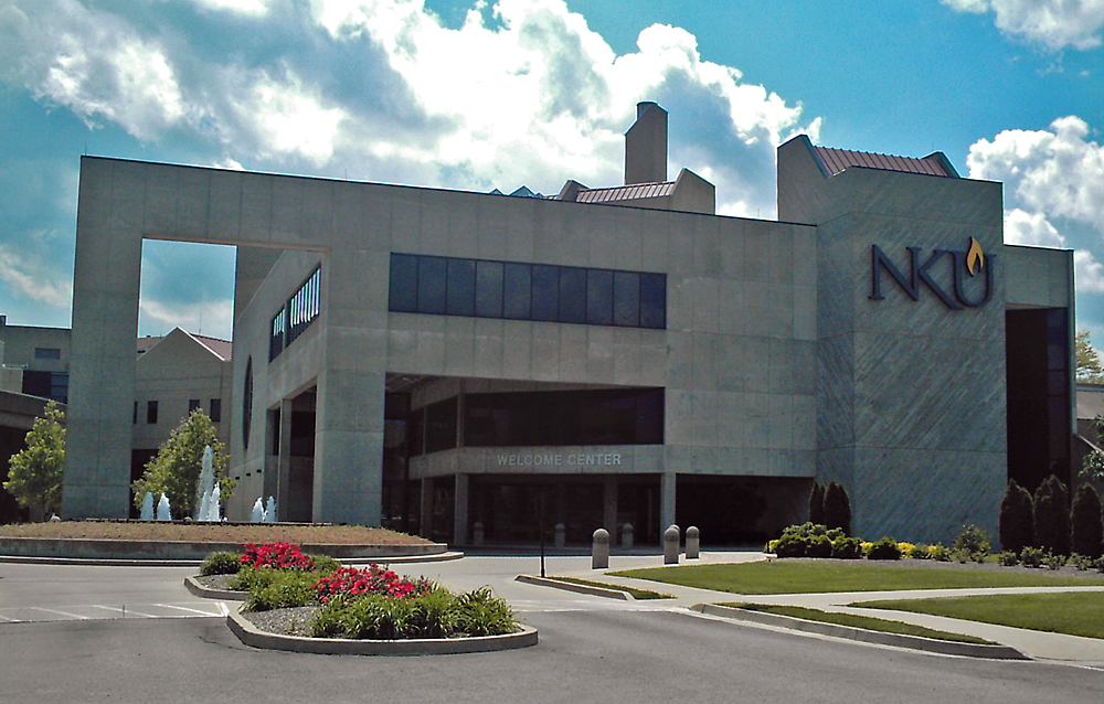 W. Frank Steely Library, on the Northern Kentucky University campus, seen from the 1995 rear addition. The original front faces the campus plaza on the 3rd floor of the library, as it is built on a lopped-off hilltop, paved over with concrete. That facade is covered with an oblique glass wall, under which there is a Loggia and offices and reading areas on upper floors. This view shows the redesigned entrance to the university and to the library, which is staffed by a help desk.